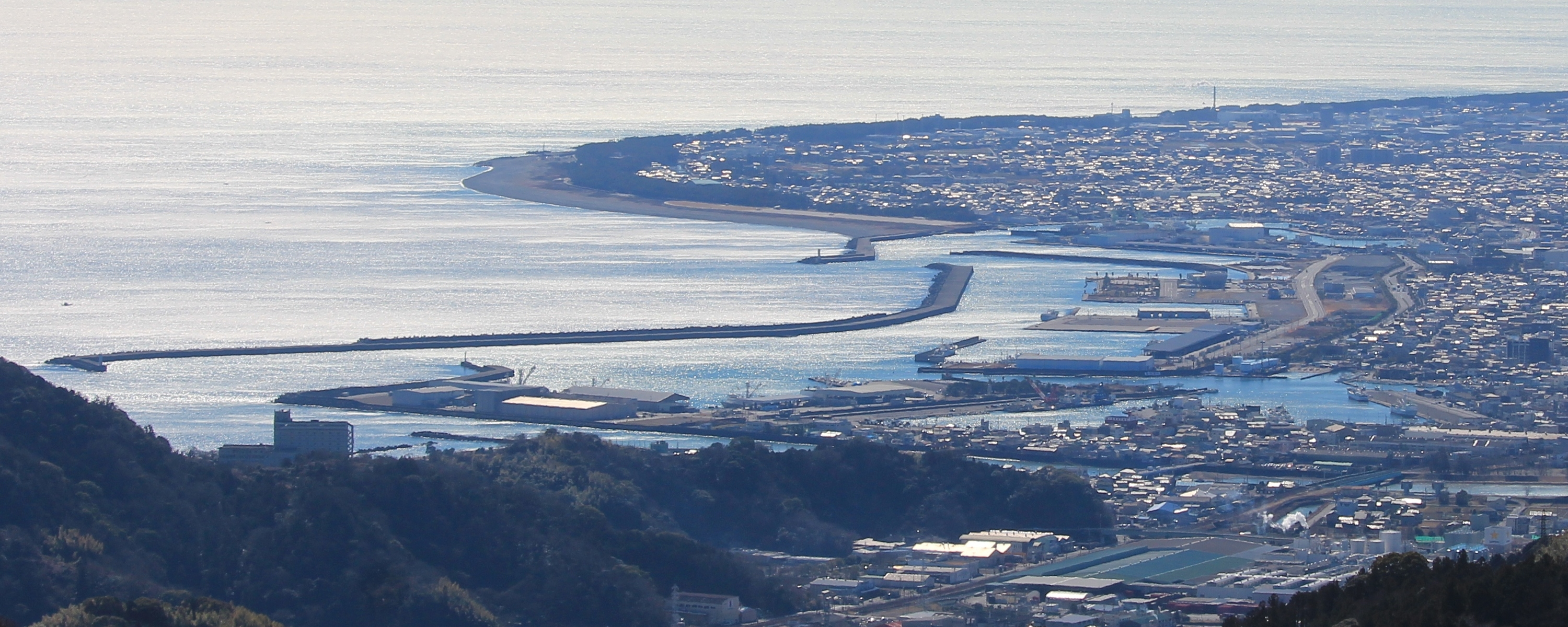 Port of Yaizu seen from Mount Mankan in Shizuoka prefecture, Japan.